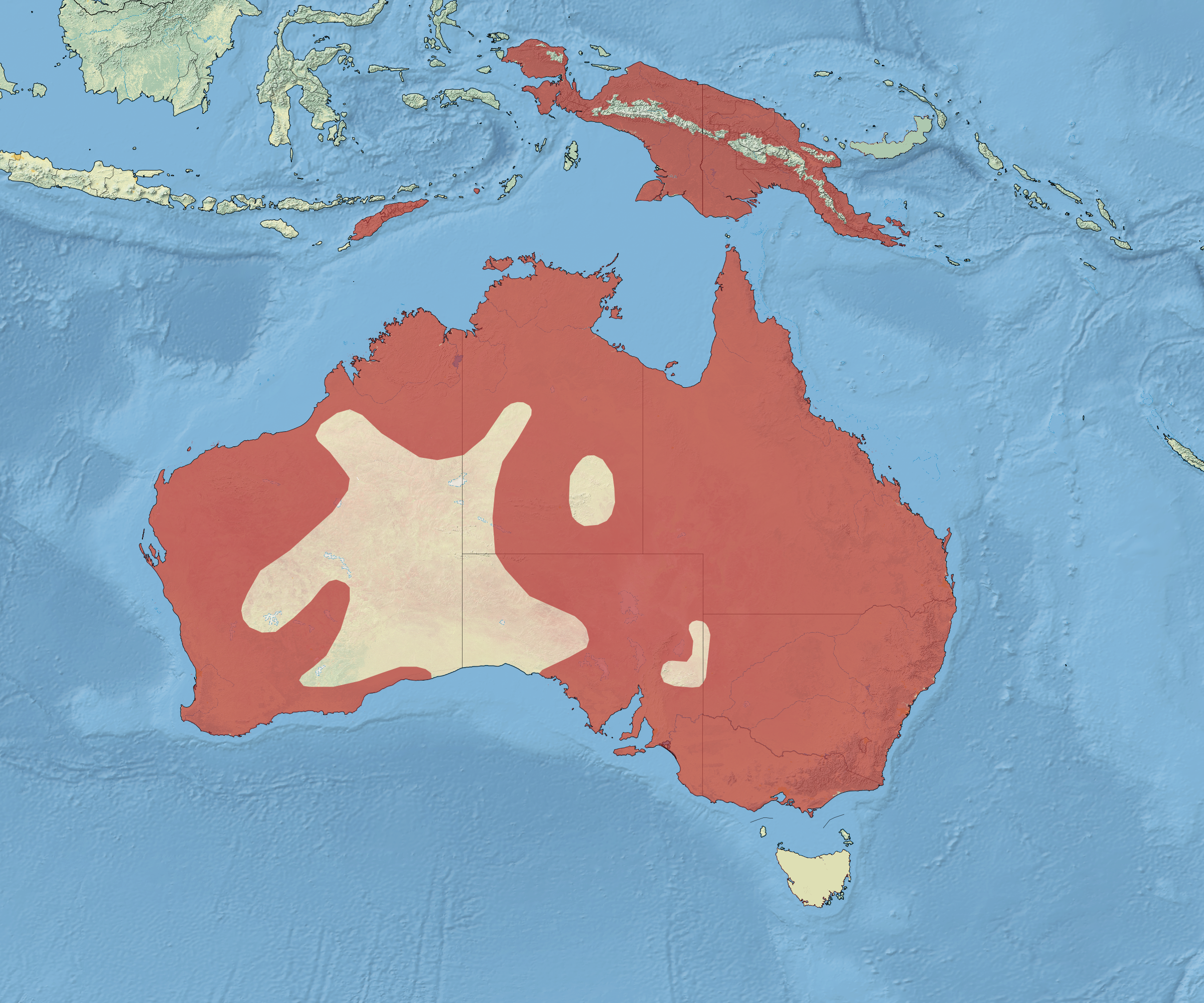 The approximate distribution of the Australasian Darter, according to the IUCN Red List.